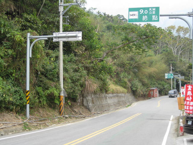 The end of County Route No. 149B(149乙) in Gukeng Township,Yunlin County,Taiwan.